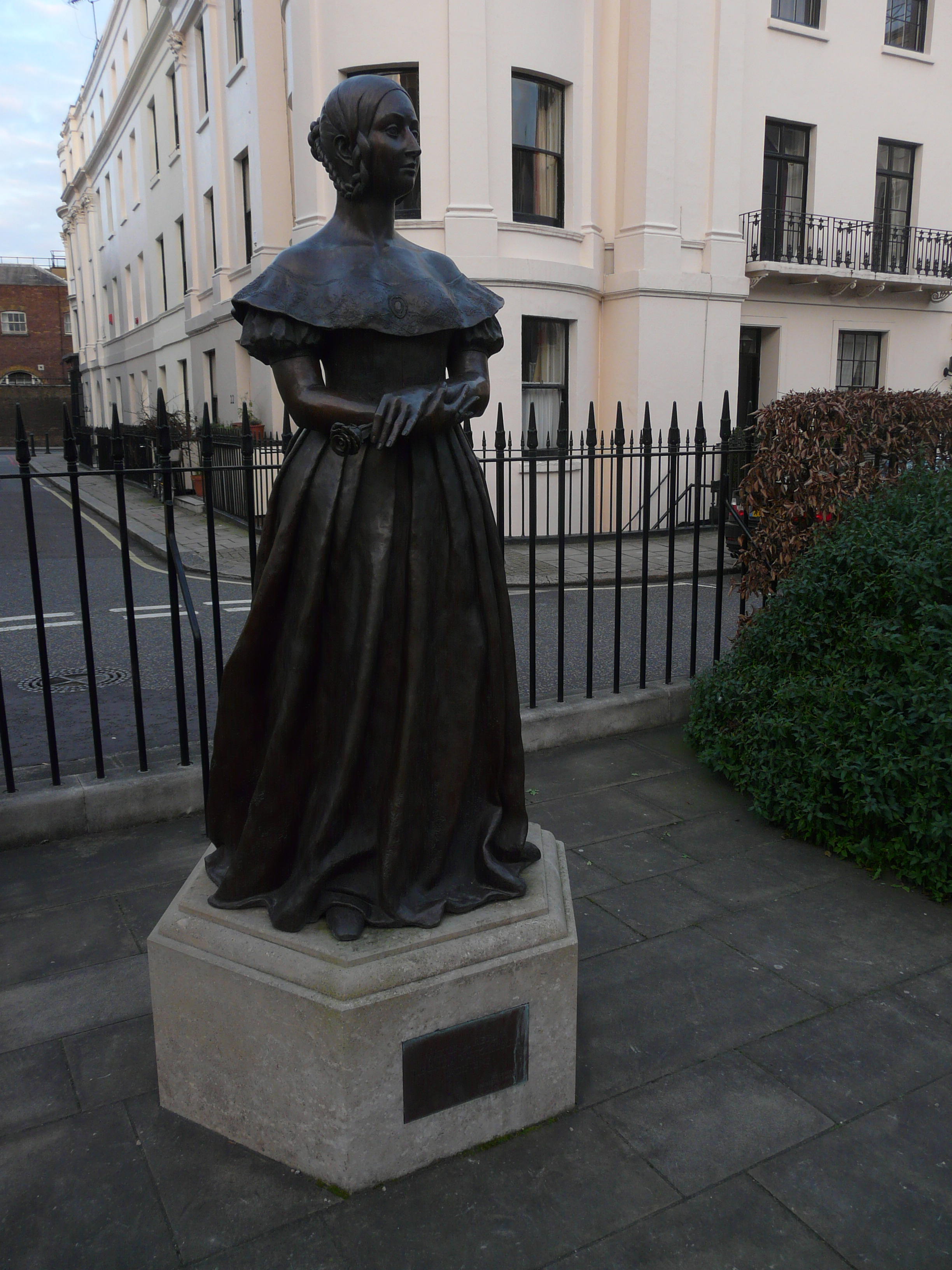 Statue of Queen Victoria (2007) by Catherine Laugel, Victoria Square, Belgravia, London